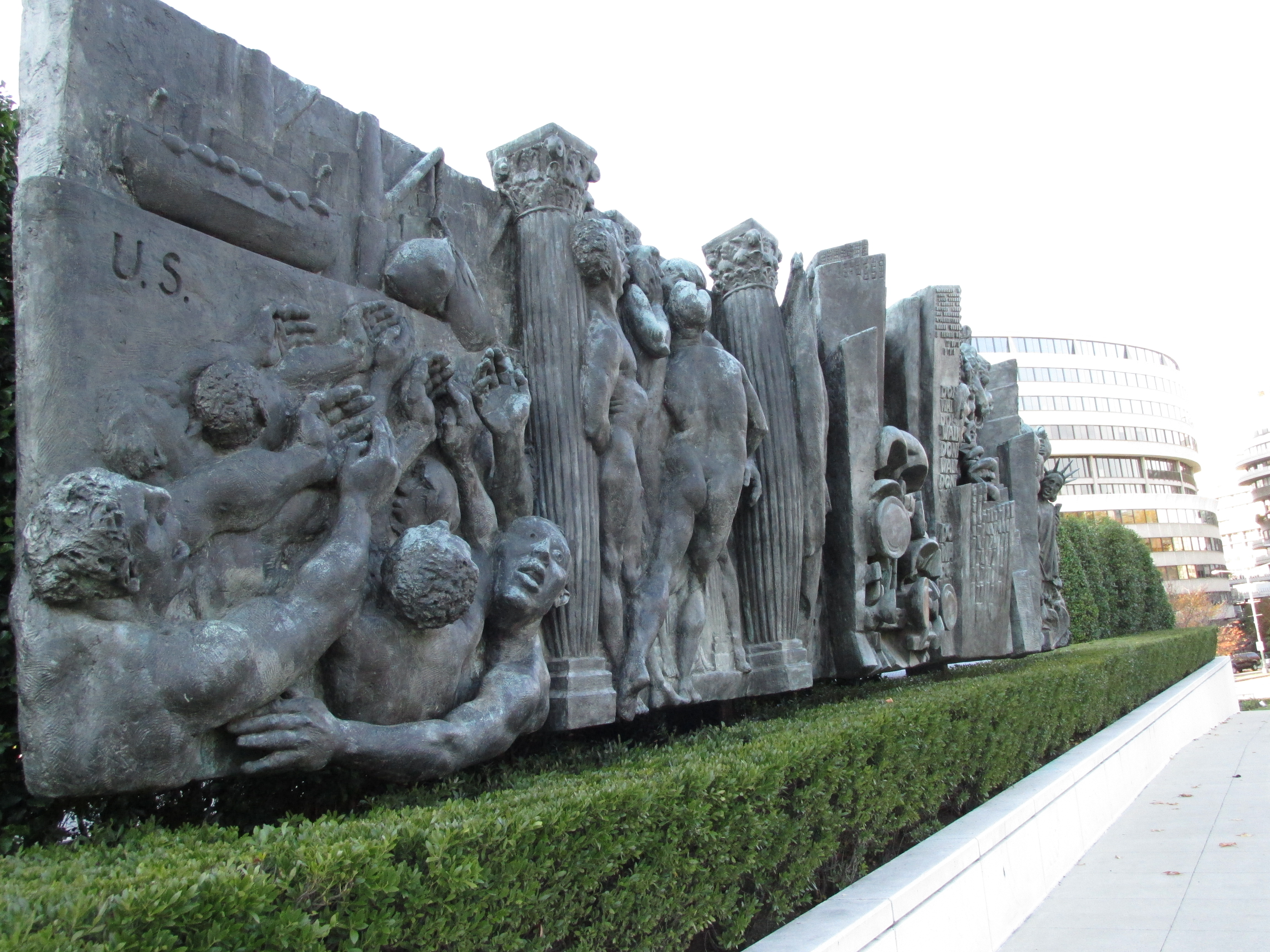 Art on the grounds of the John F. Kennedy Center for the Performing Arts.